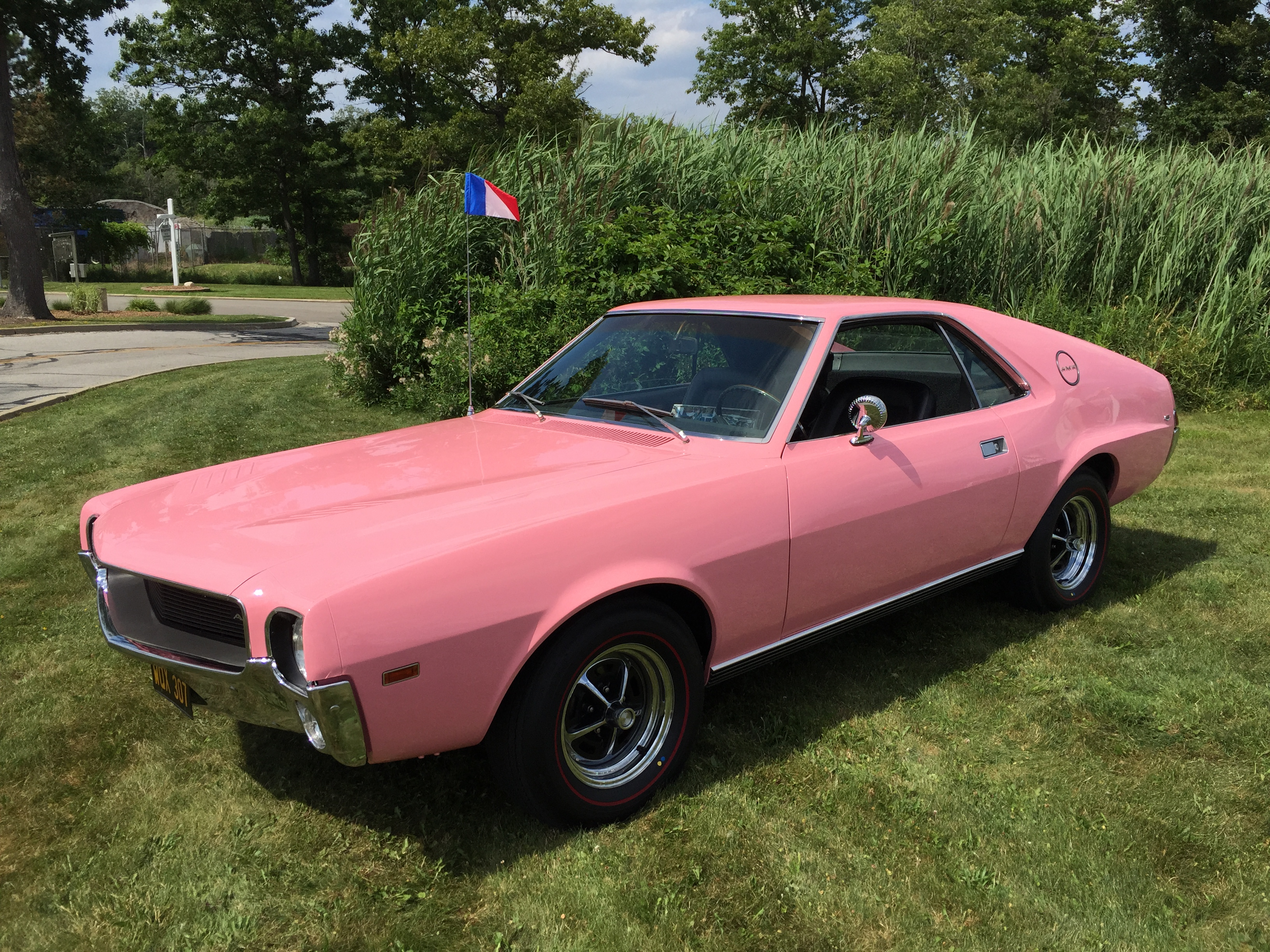 1968 AMC AMX - a two-seat sports grand touring car built by American Motors Corporation (AMC). This is the actual car that was awarded to Playboy's 1968 Playmate of the Year, Victoria Vetri, better known as Angela Dorian. Finished in "Playmate Pink" with the special "36-24-35" dashboard number plate, and now restored to its original factory condition. Picture taken at the American Motors Owners Association (AMO) annual convention that was held July 2015 near Cleveland, Ohio.